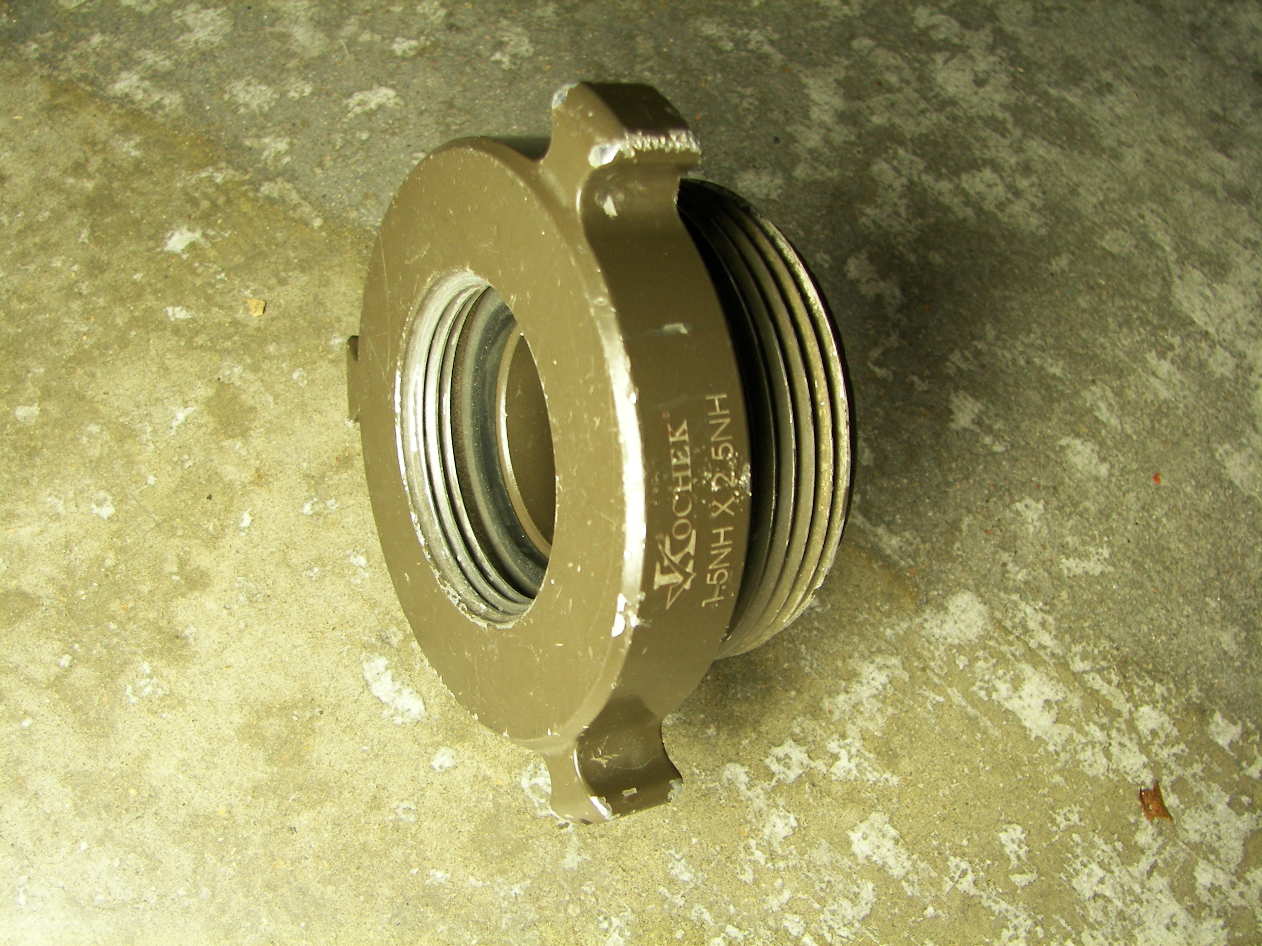 Side view of a 1.5 inch to 2.5 inch adapter.